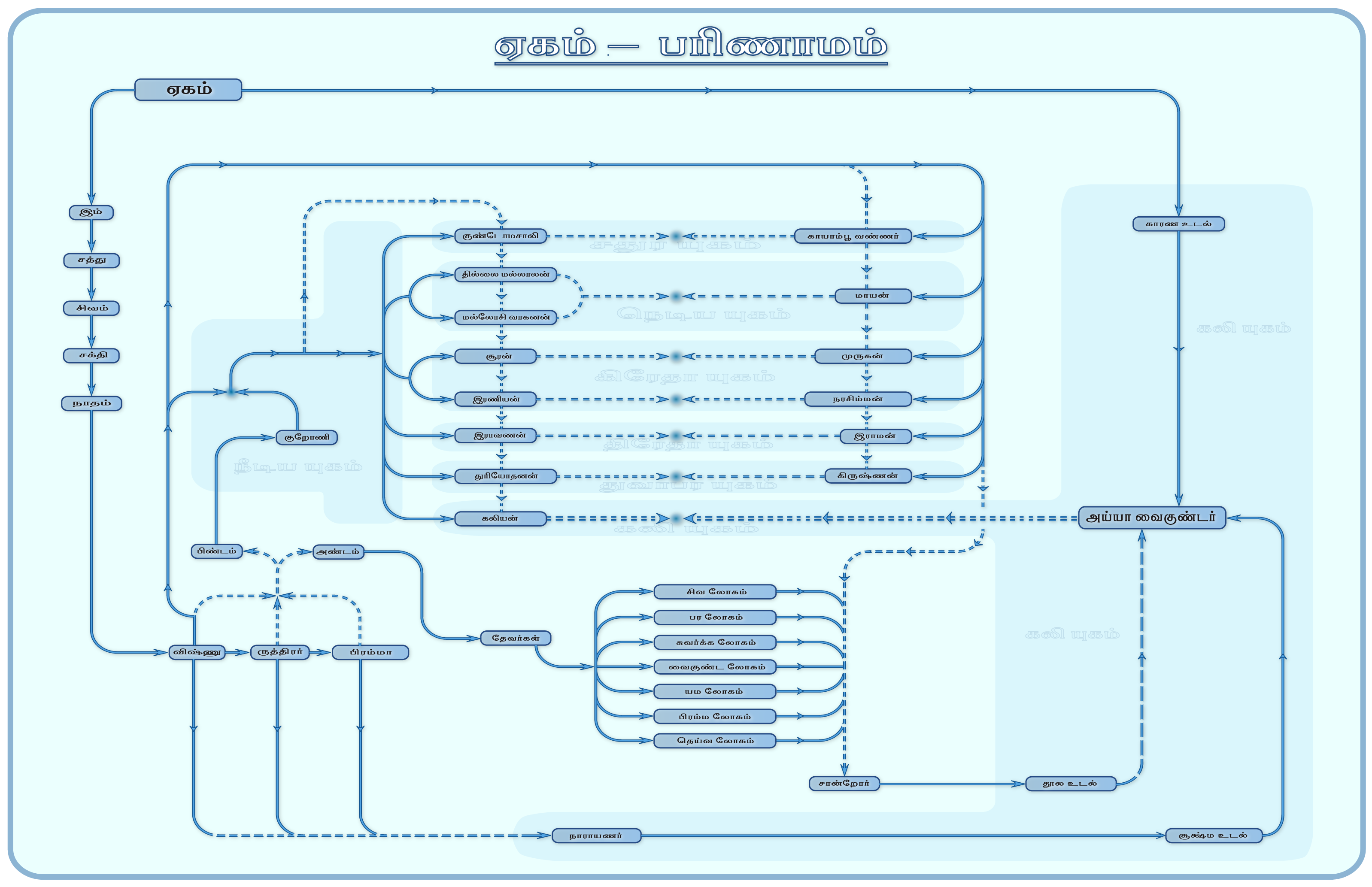 Illustration of Ayyavazhi mythology